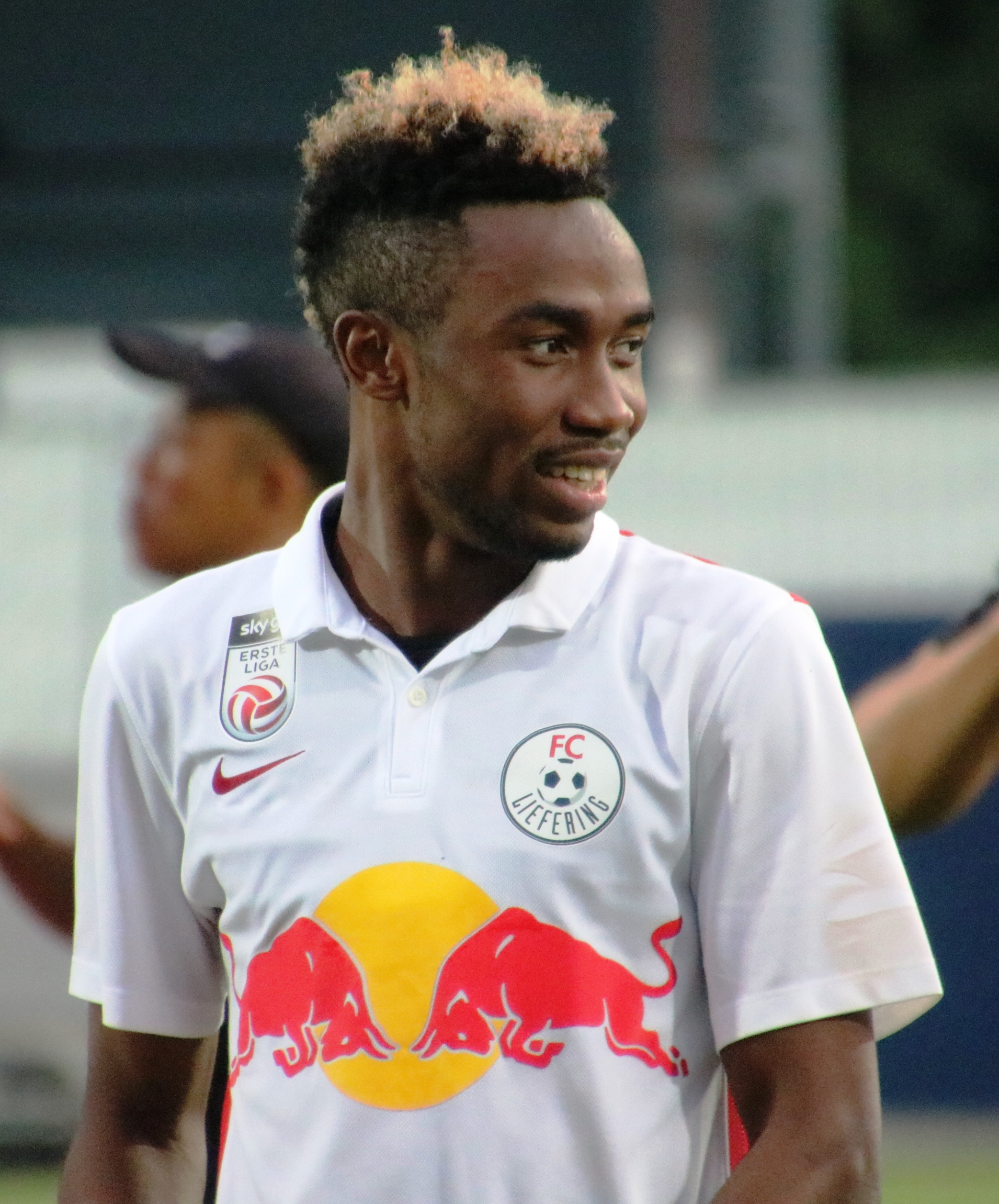 league match Austria 2nd league